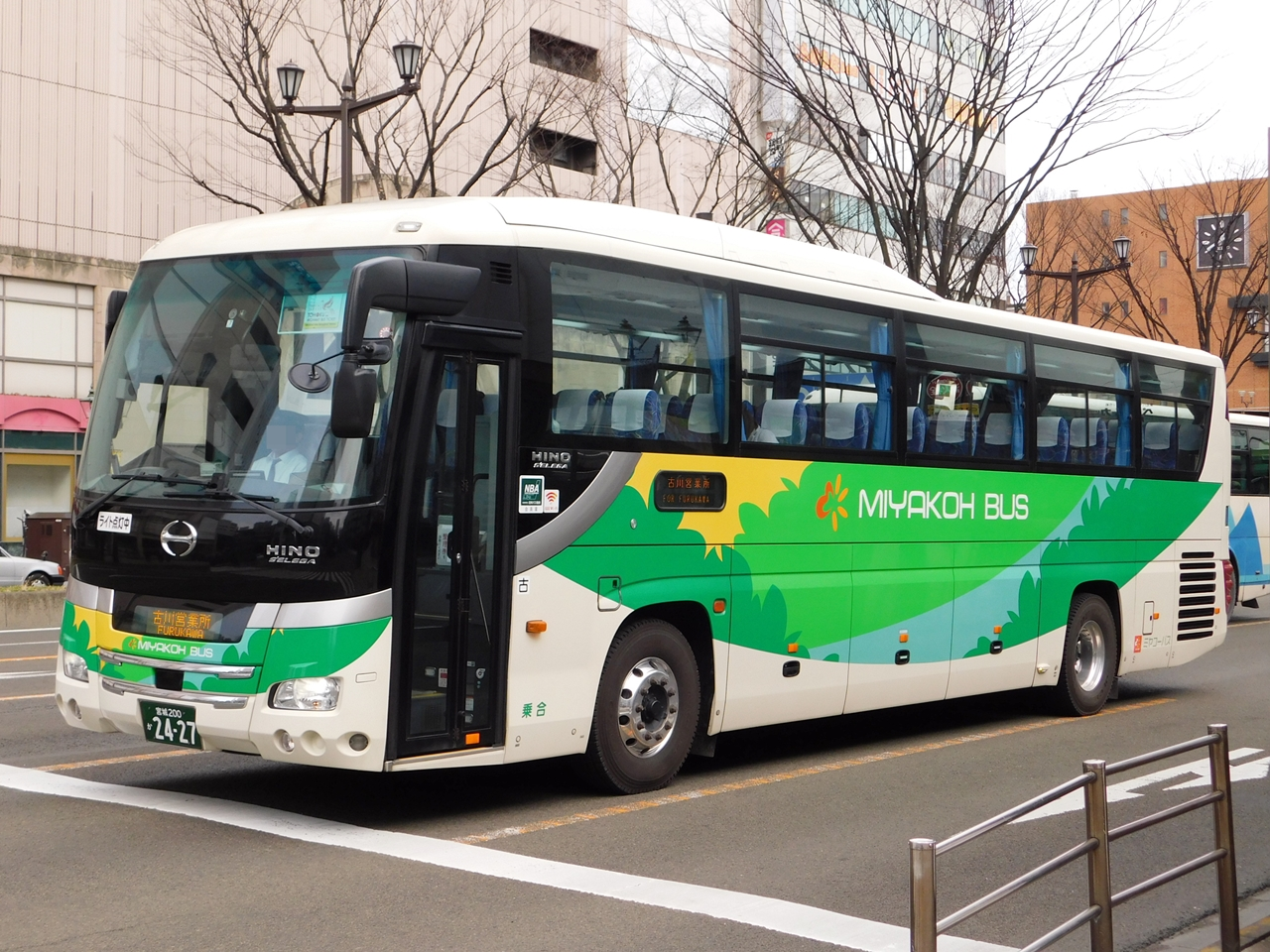 Miyakoh bus Hino S'elega HD (QRG-RU1ASCA)on highwaybus Sendai-Furukawa